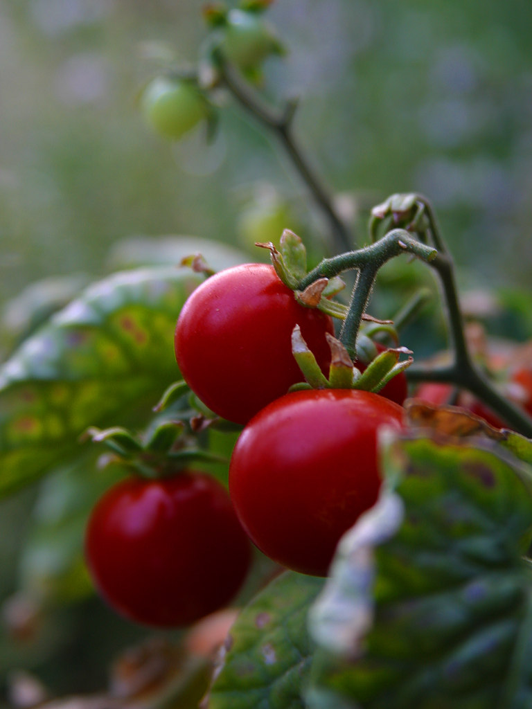 Cherry tomatoes (Solanum lycopersicum)